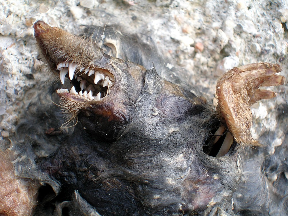 Dead mole in decomposition process illustrating the digging claws and the dentition of a carnivore predator in Coimbra, Portugal